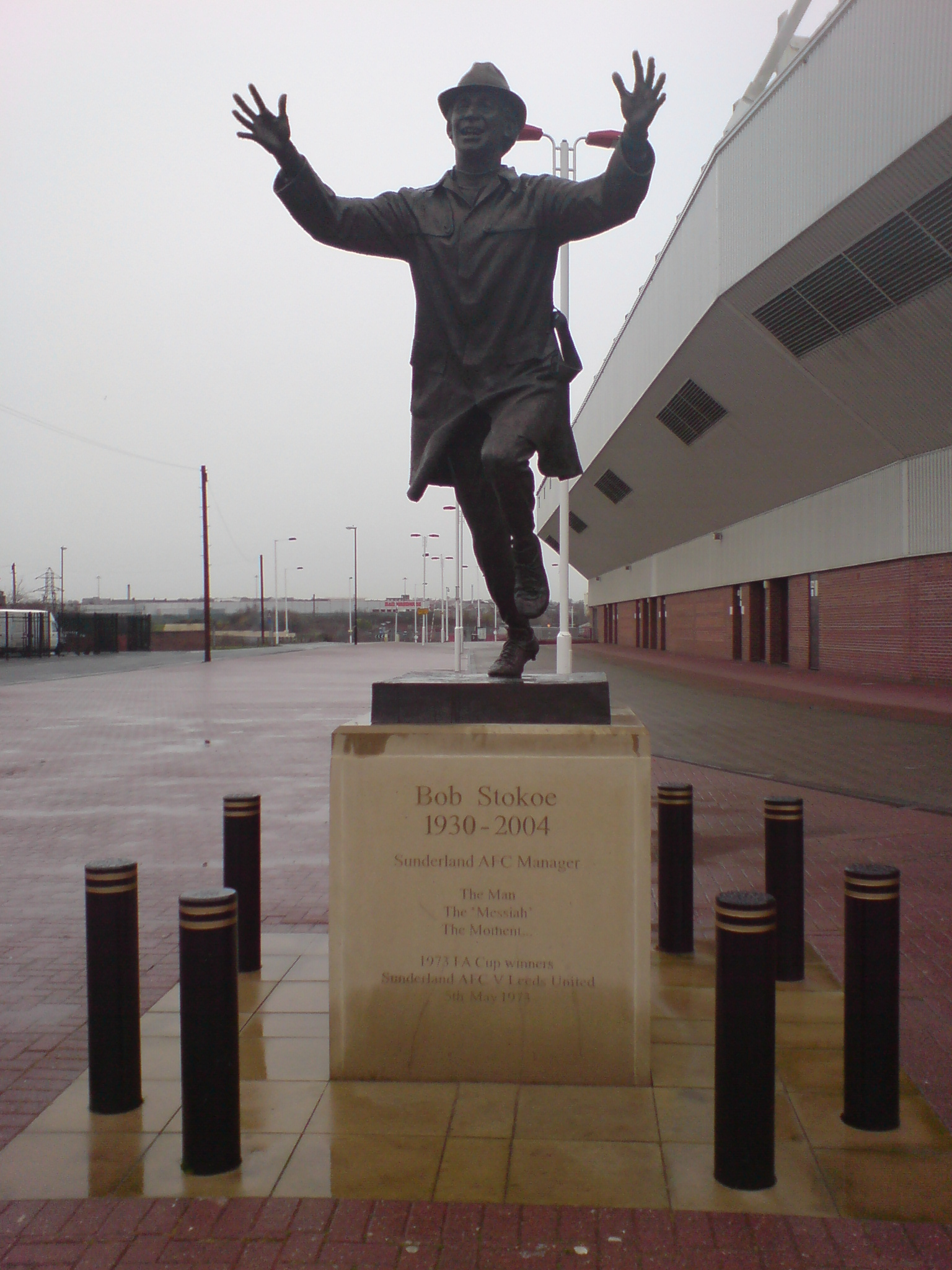 Statue of former Sunderland A.F.C. manager Bob Stokoe by sculptor Sean Hedges-Quinn which currently stands outside the Stadium of Light to commemorate his death in 2006. It was erected on 18 July 2006.